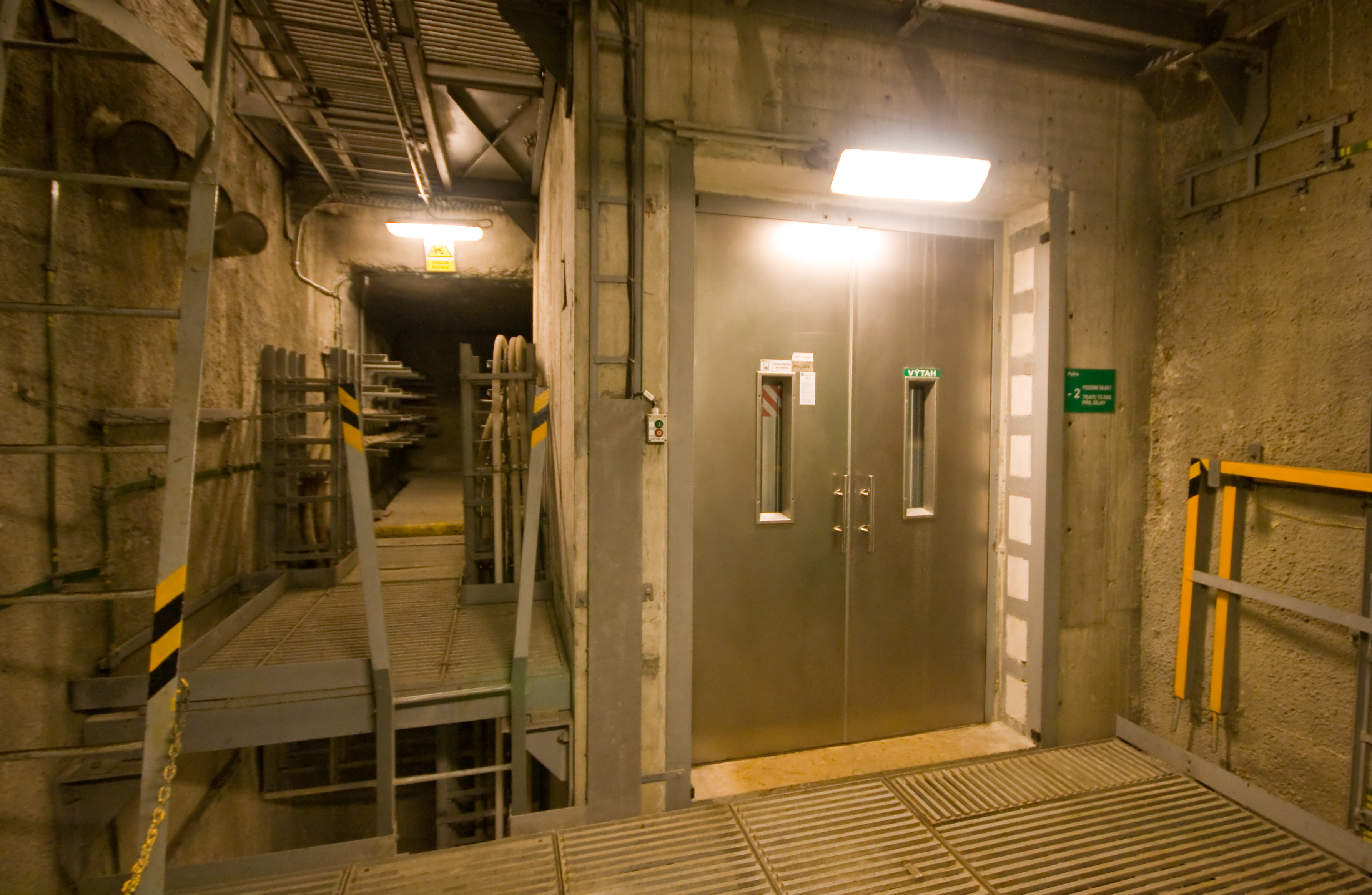 Utility tunnels Prague, Prague Tato série fotografií vznikla za laskavého svolení společnosti Kolektory Praha